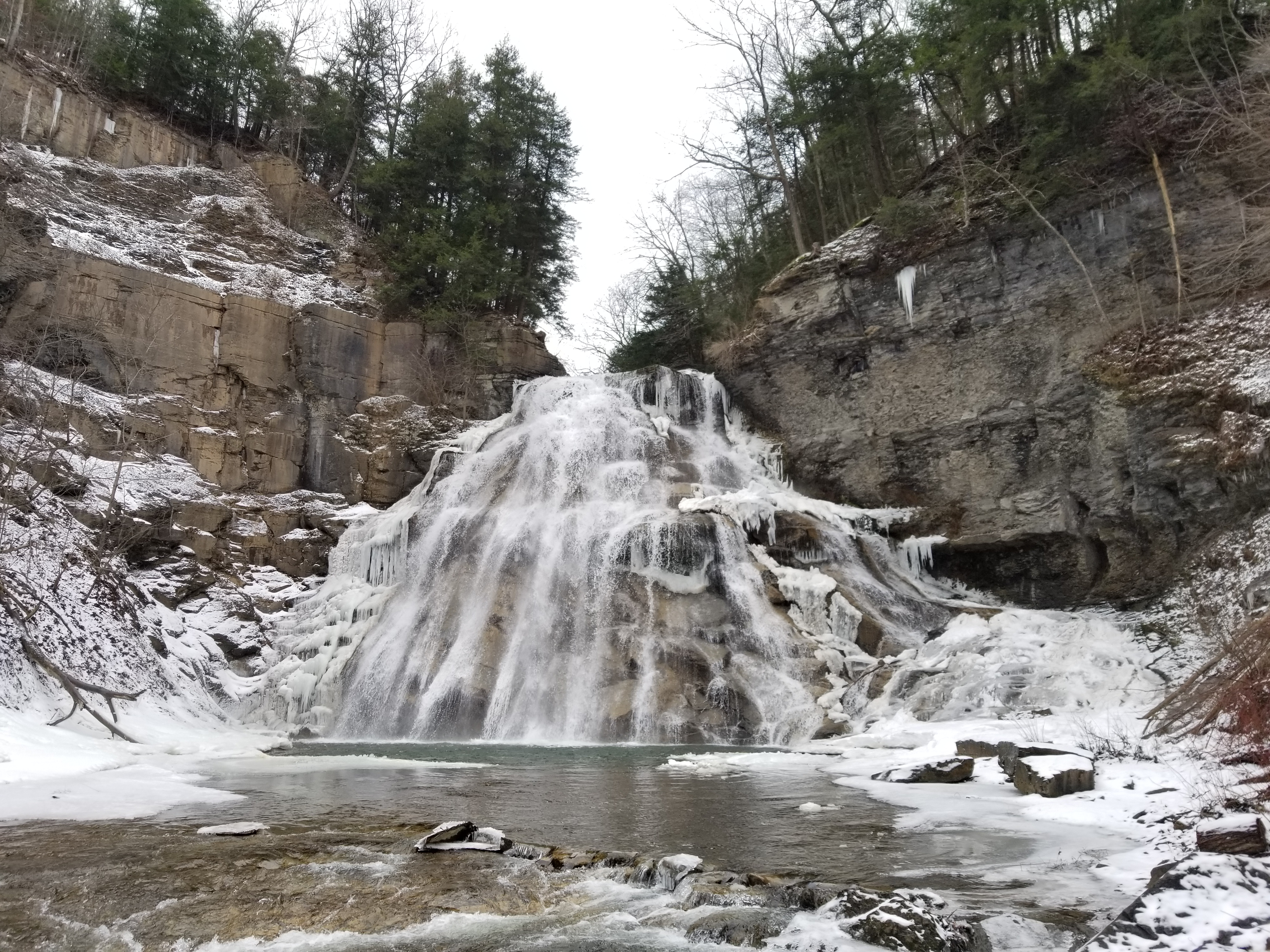 Delphi Falls in Madison County, NY as seen in December 2018